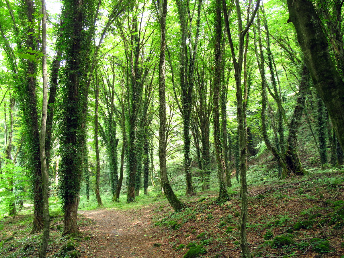 photos from georgia, as part of trip documented on